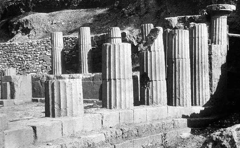 View of temple of Athena in Delphi before its destruction from the fall of a slide in 1905.